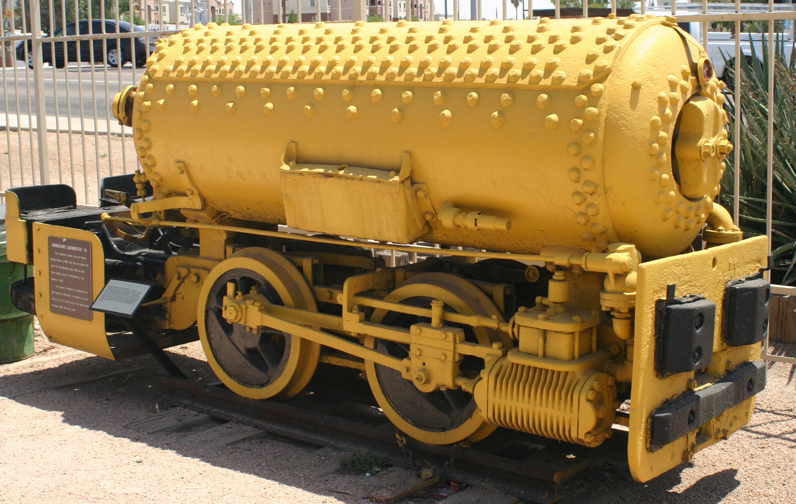 A 0-4-0 on display at the Arizona Railway Museum. Taken by Jot Powers, 5/2005. The accompanying card reads: Homestake Mining Locomotive, Fireless, 0-4-0 wheel arrangement. Built by the Porter Locomotive Company in 1923 as serial number 3290. Powered by compressed air for use in mine shafts, the locomotive weights 10,000 pounds on 23 inch drivers with a tractive effort of 18,600 pounds. The boiler pressure is 1000 p.s.i of air with 6 x 10 inch cylinders. The locomotive was retired in August of 1985 and donated by Homestake Mining Company to the Museum. This locomotive was on display at the Mesa Museum of the Southwest from 1987 to 1997. It returned to Chandler on June 25, 1997.